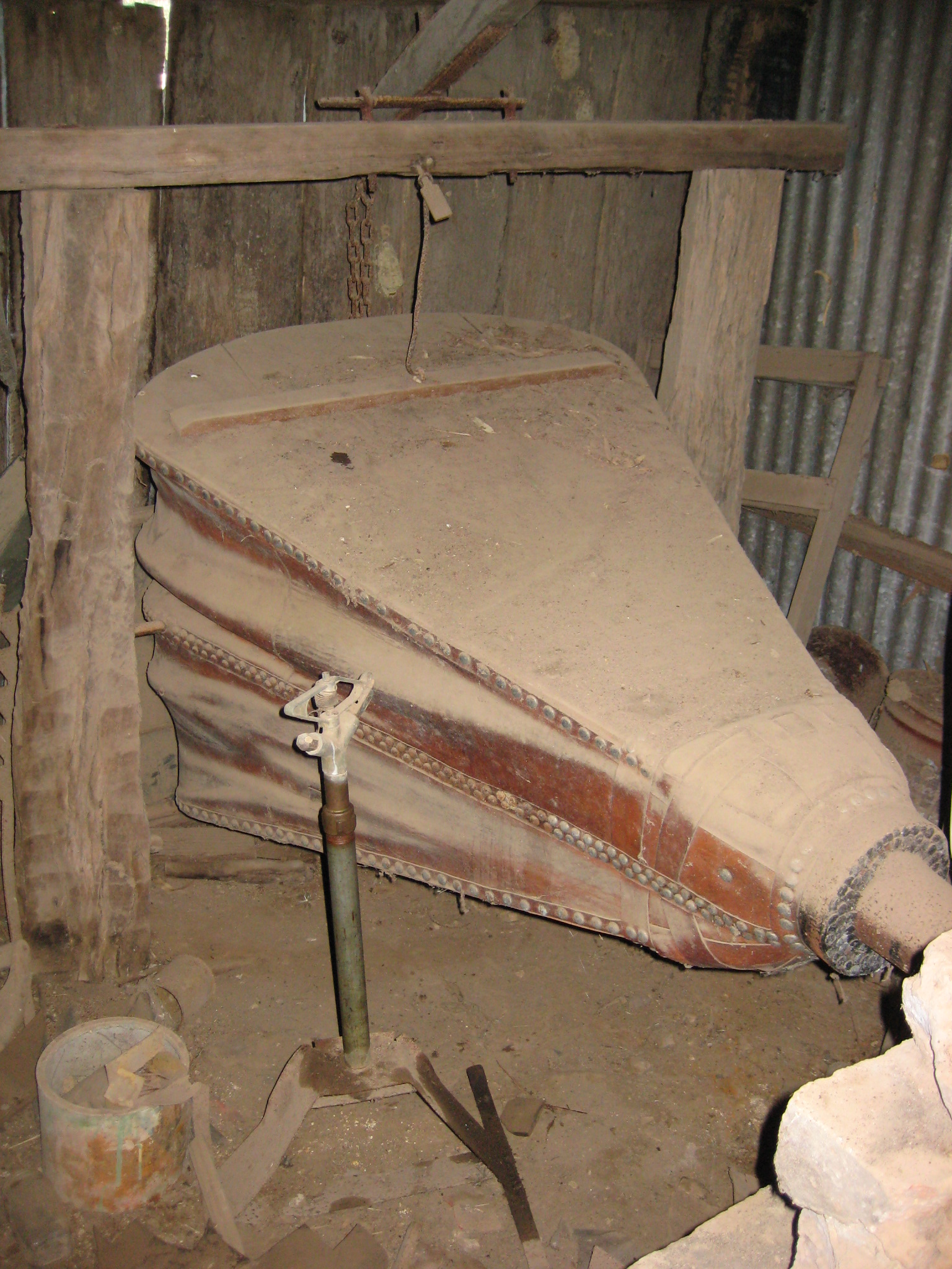 An old bellow in a blacksmith shed (Australia)